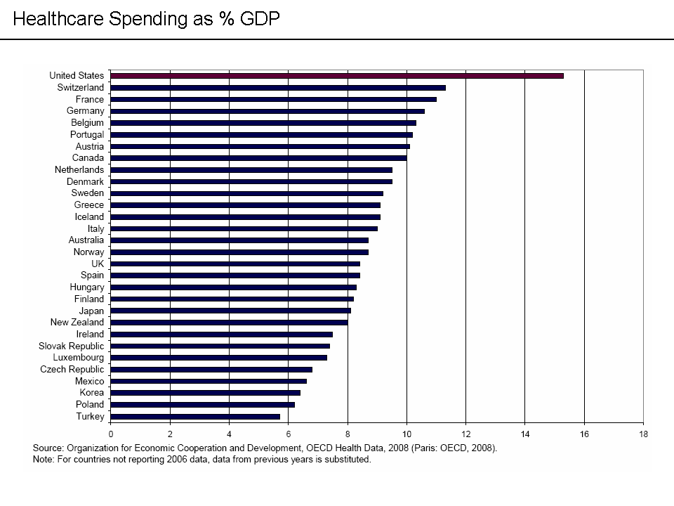 Extract from the text of the original document: "[This figure] shows the fraction of gross domestic product (GDP) devoted to health care in a number of developed countries in 2006. According to the Organization for Economic Cooperation and Development (OECD), the United States spent 15.3 percent of its GDP on health care in 2006. The next highest country was Switzerland, with 11.3 percent. In most other high-income countries, the share was less than 10 percent."